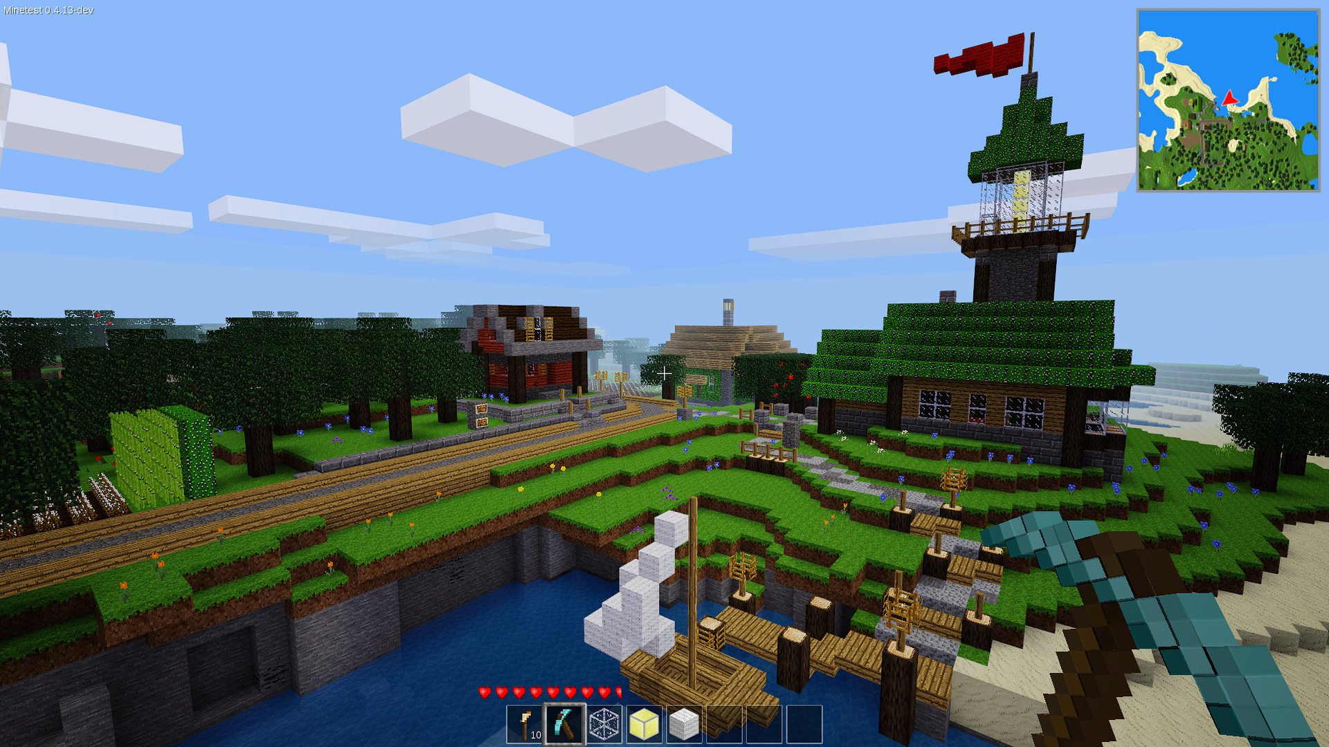 A screenshot by a Minetest player, LazyJ, showing his singleplayer world, "Forge", in survival mode. Using Minetest 0.4.13-dev (self-compile).